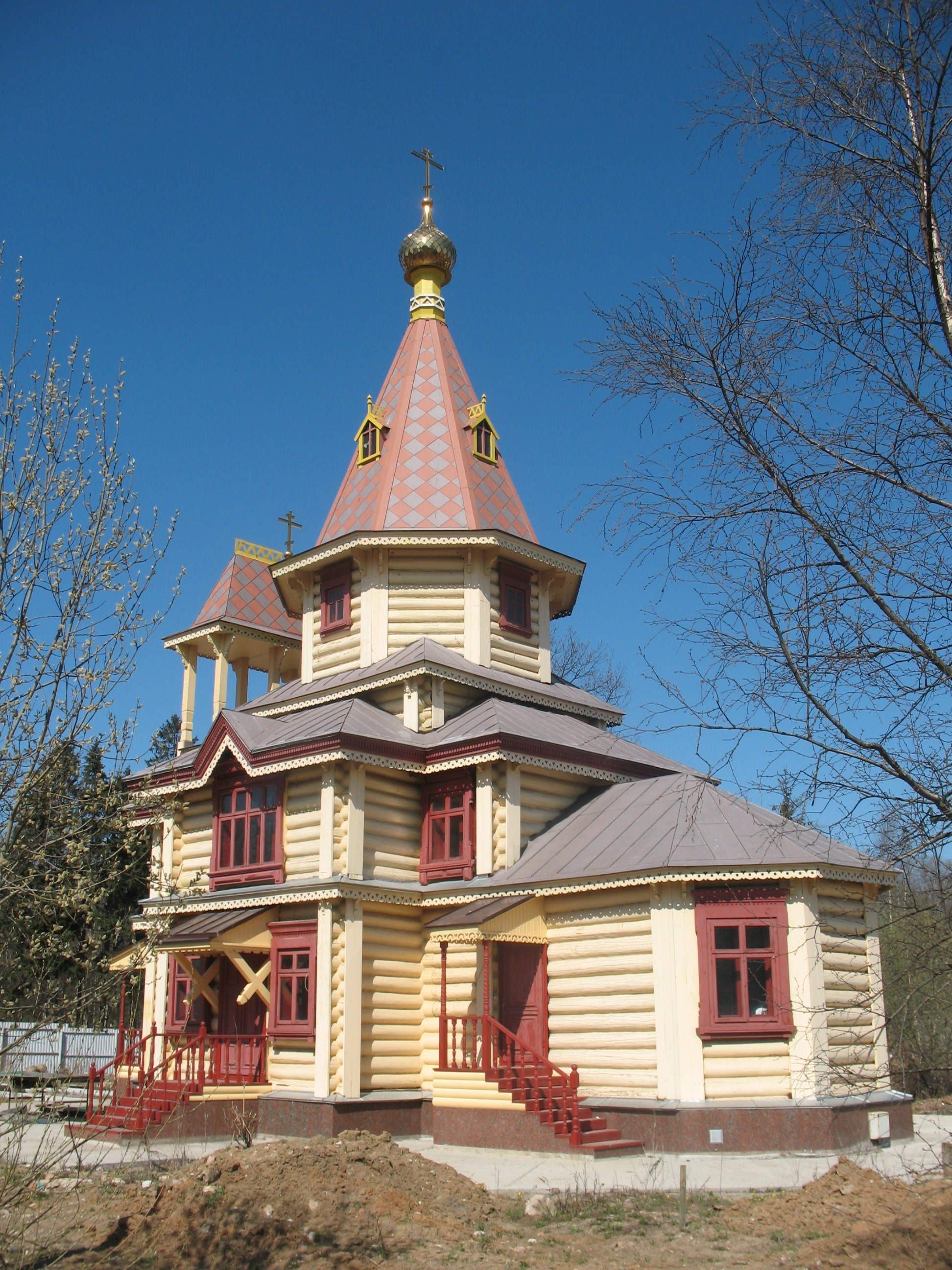 Saint Sergius of Radonezh Russian Orthodox church in Chernetsah (Dolgoprudnom).